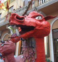 Estarrufat is the first dragon of Colla del Drac del Poble Nou